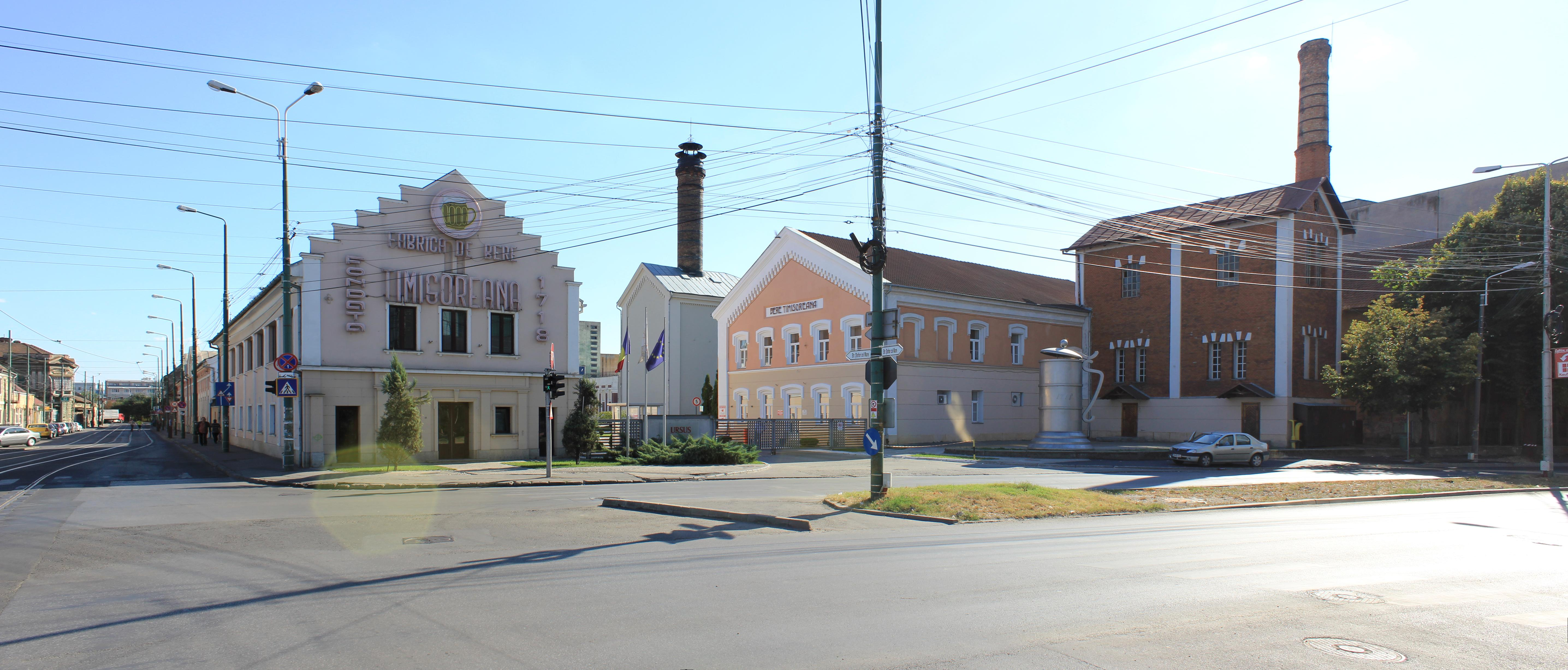 A ensemble of buildings, all part of the beer factory, XVIII - XX century, Timișoara, Romania